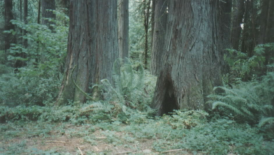 In Lewis and Clark State Park — one of the few lowland old growth forest preserves. With 2 ancient Western Redcedar (Thuja plicata) trees. Along I-5, south of Centralia, Washington (between Seattle and Portland).